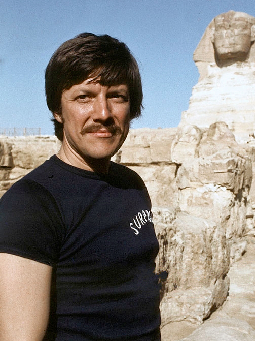 Italian explorer, navigator, TV presenter and writer Ambrogio Fogar posing near a sphinx. 1975